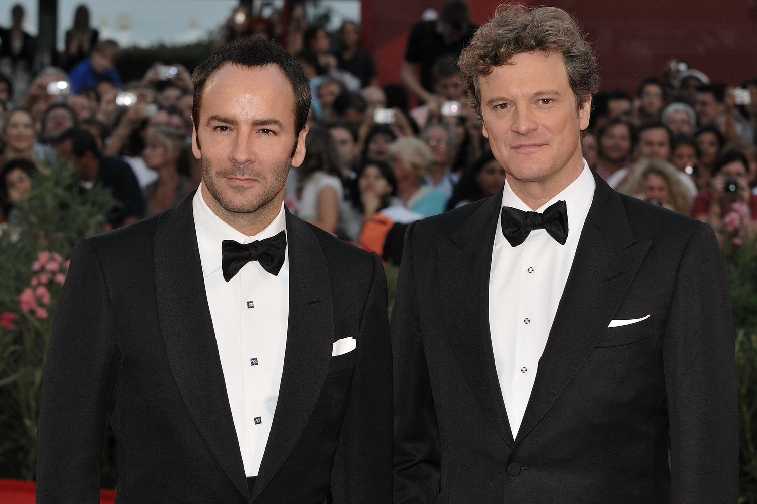 Tom Ford and Colin Firth at the 2009 Venice Film Festival